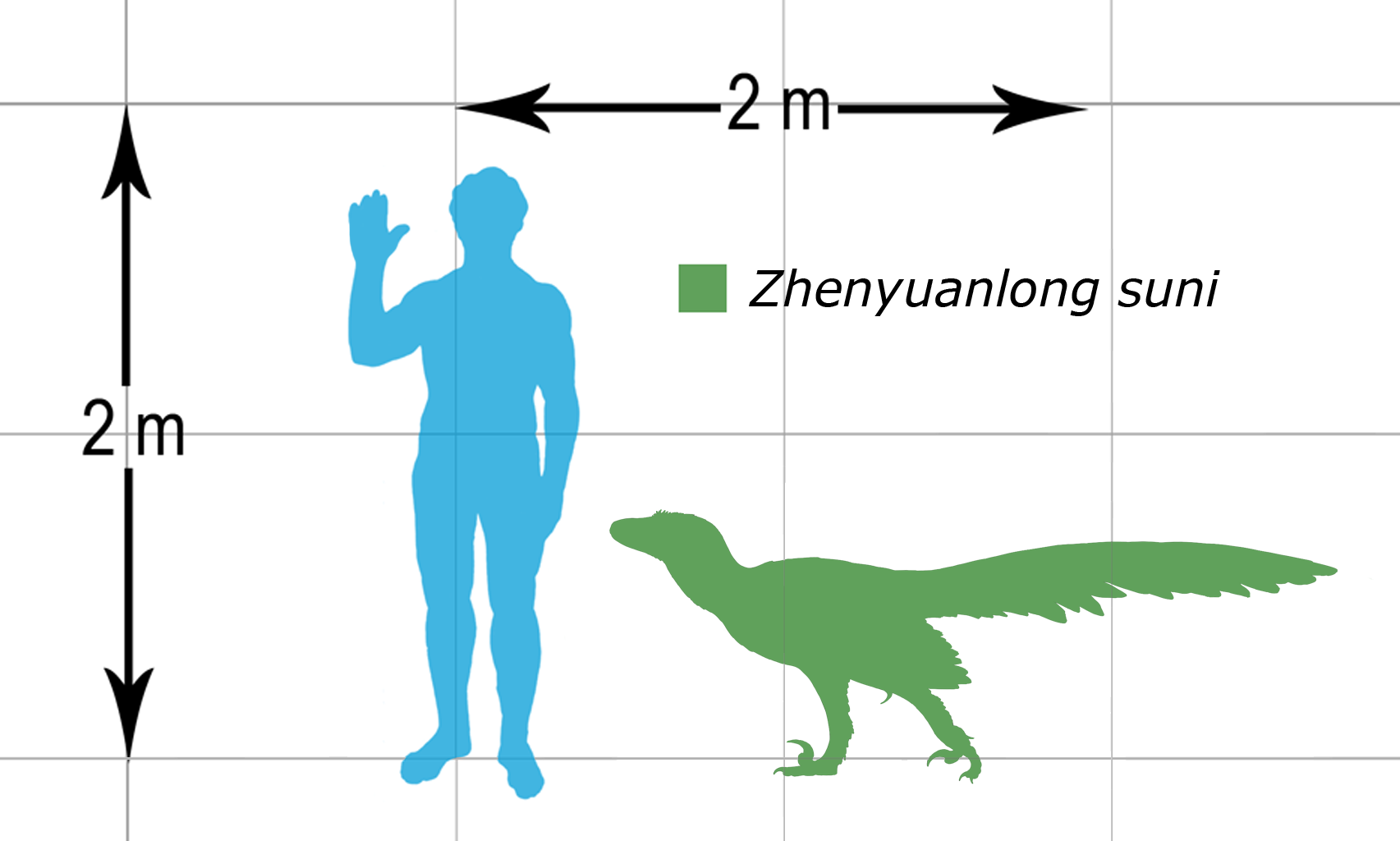 Scale chart of dromaeosaur Zhenyuanlong in reference to a human, based on Lü & Brusatte 2015. Size chart template by Matt Martyniuk.